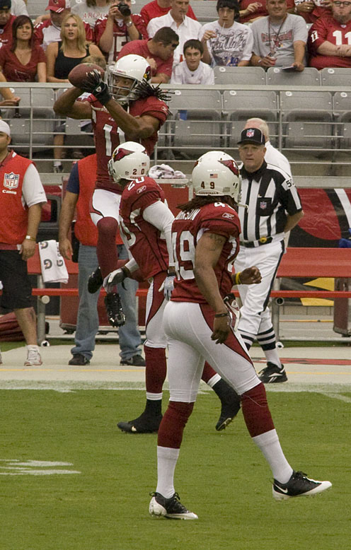 Larry Fitzgerald, Jr of the Arizona Cardinals.